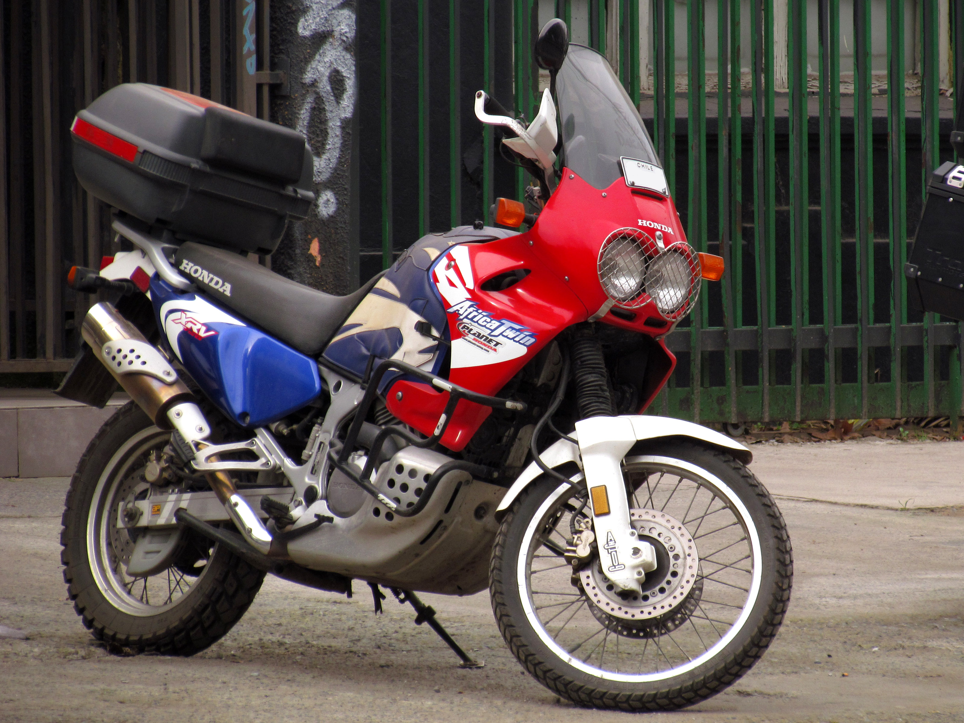 Honda XRV 750 Africa Twin 2000